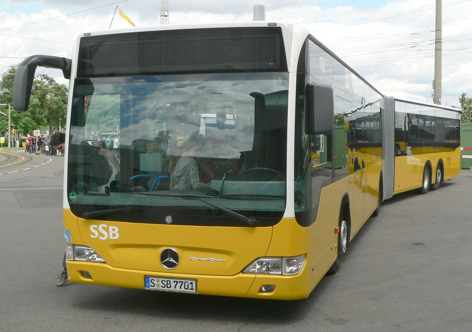 Mercedes-Benz O530GL CapaCity bus (S-SB 7701) in Stuttgart, Germany. Built 2008, SSB Stuttgart operator.